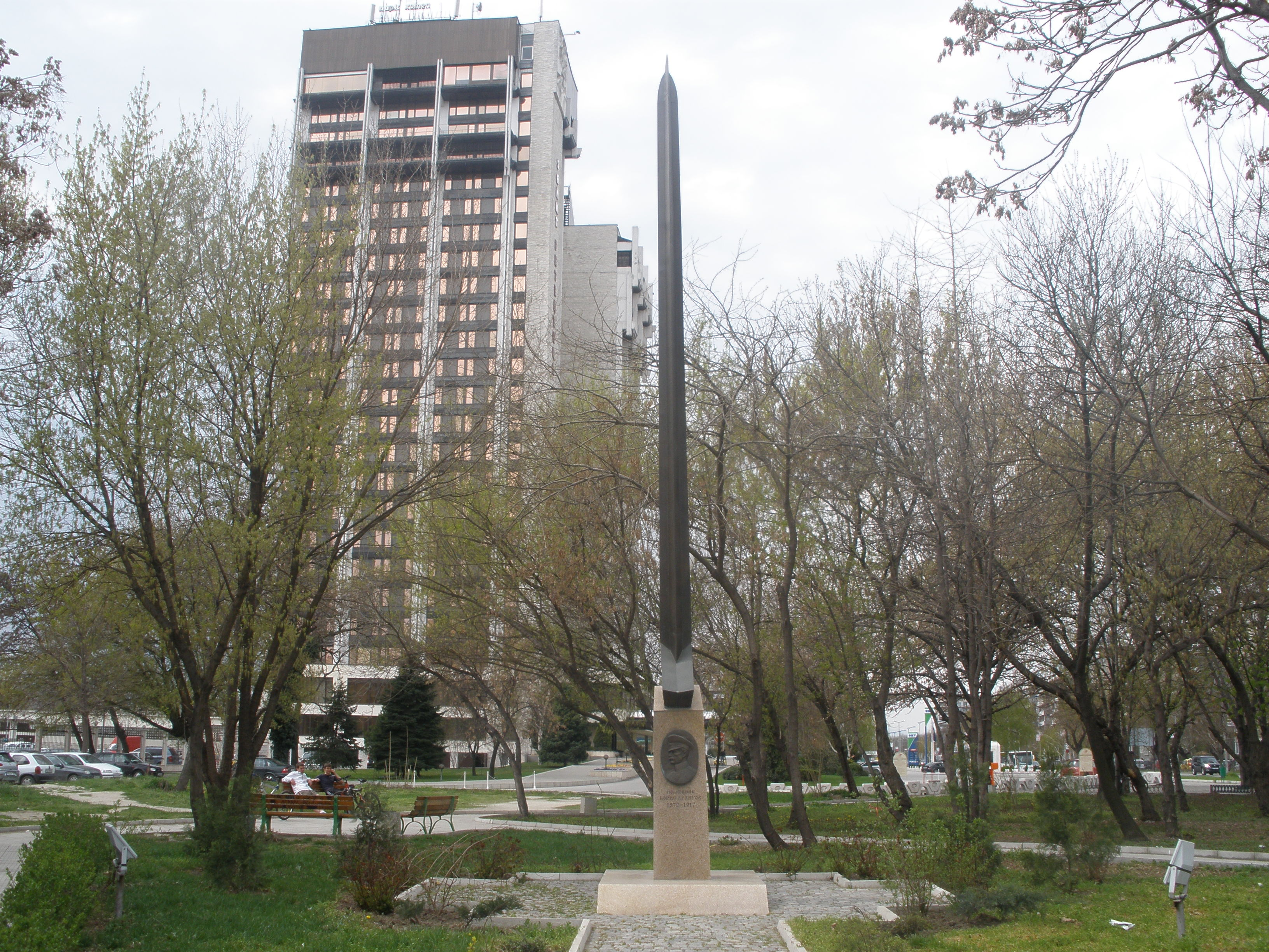 Monument of Boris Drangov in Plovdiv.